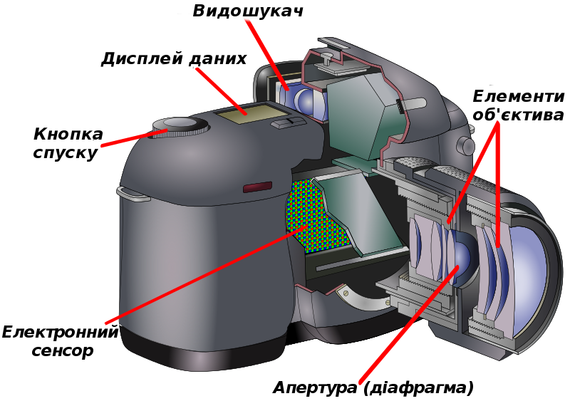 Diagram of a single-lens reflex camera with basic labels. Based on Reflex camera labels.svg. Author of the original base image is Jean François WITZ.